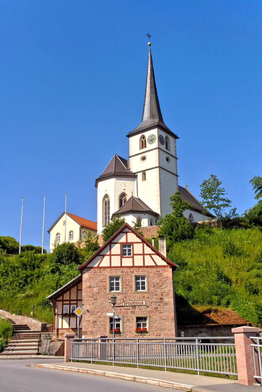 Village Schönau an derBrend, Church and Brewery of the village